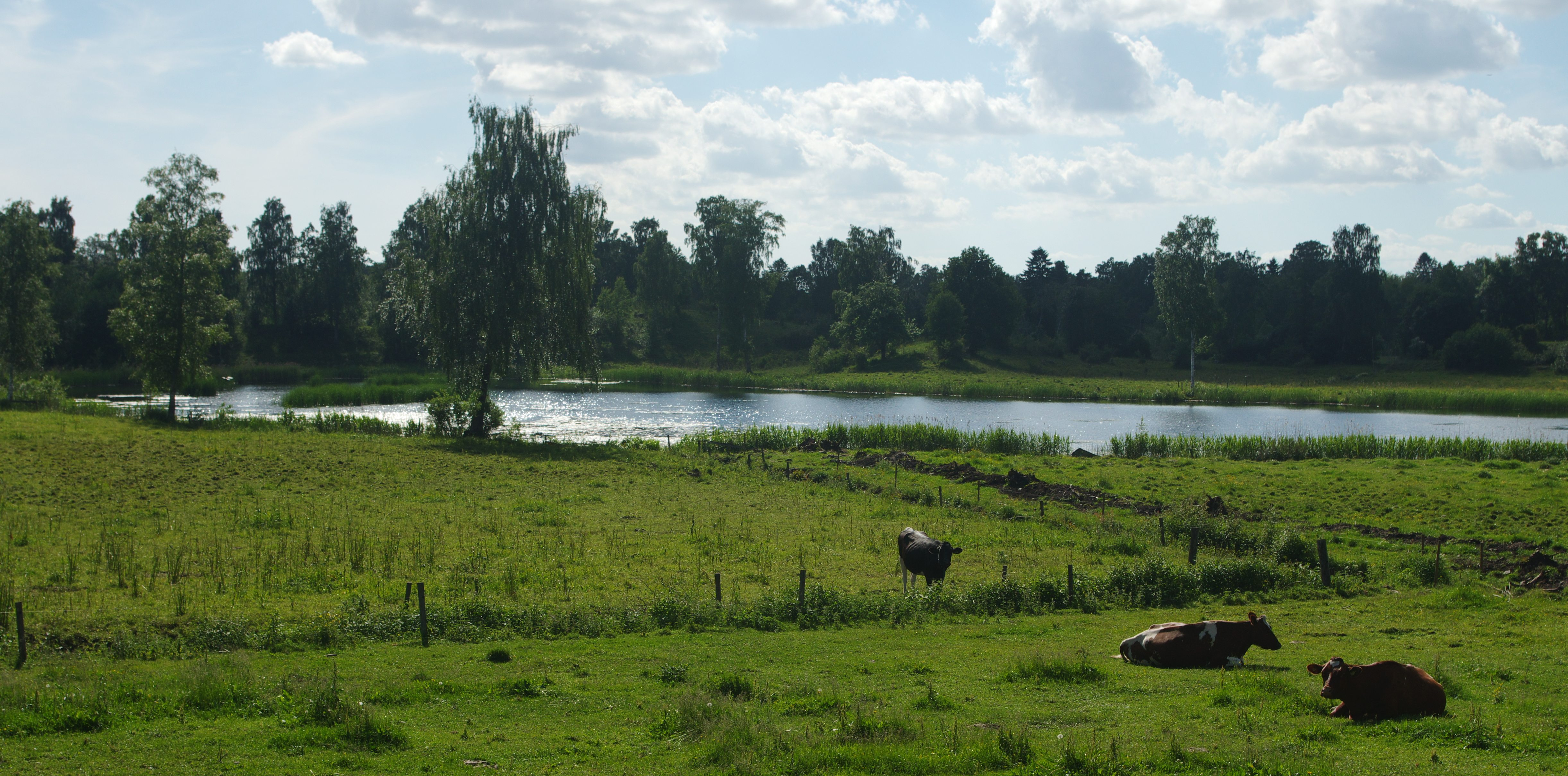 Skårsjön: Lake in Västergötland, Sweden